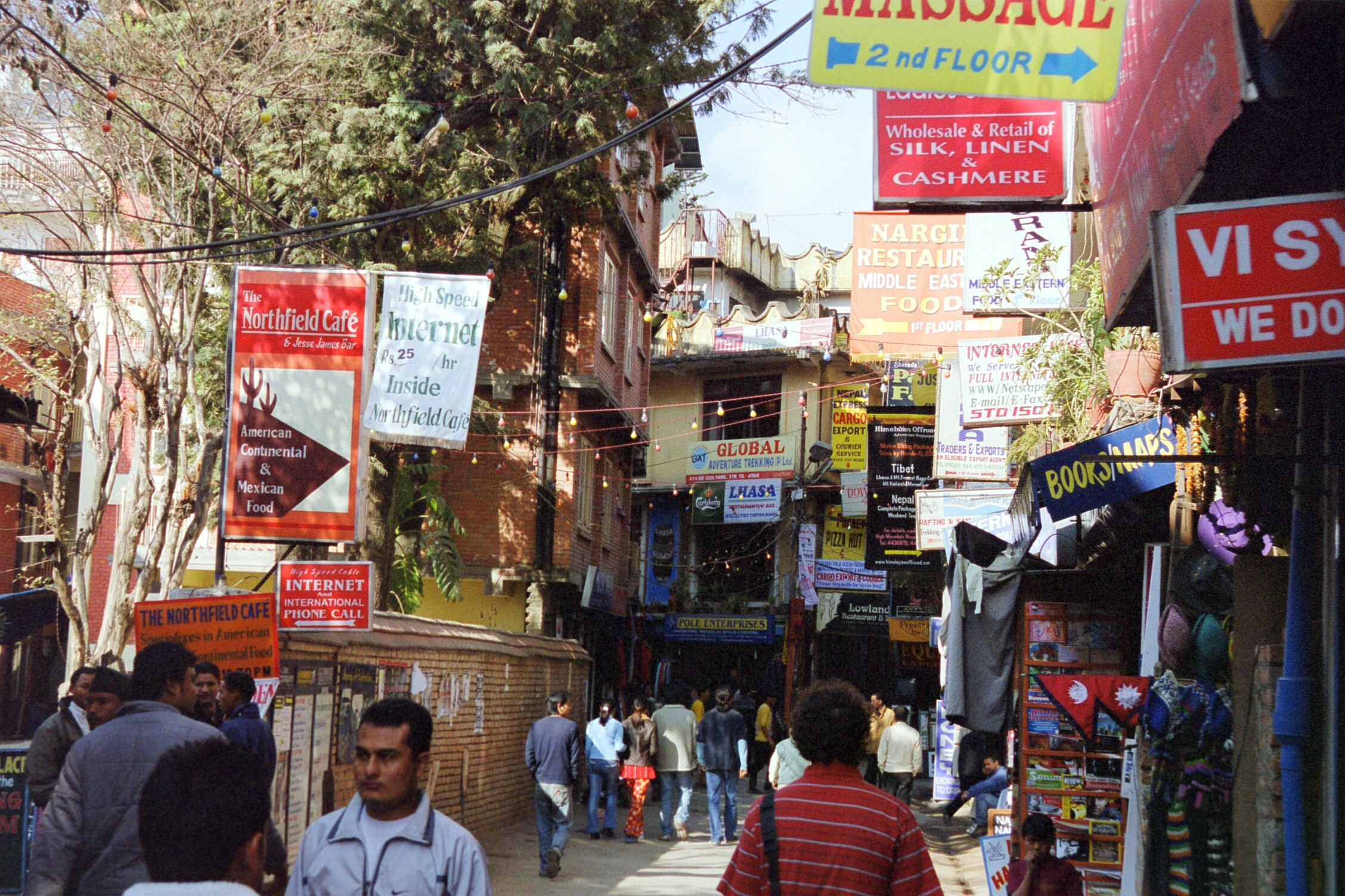 Thamel quarter in Kathmandu, Nepal